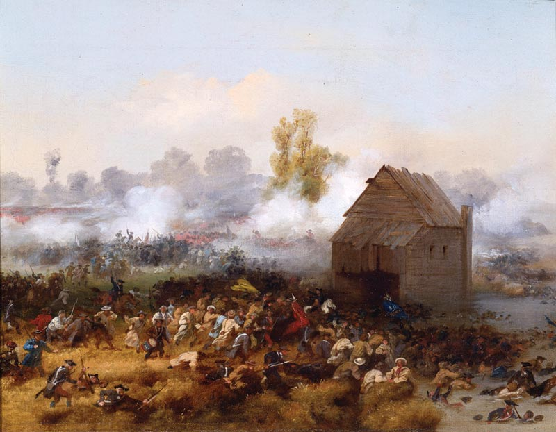 Lord Stirling leading an attack against the British in order to buy time for other troops to retreat at the Battle of Long Island, 1776.